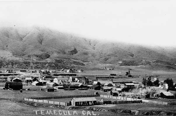 Panorama of Temecula, California, 1909.